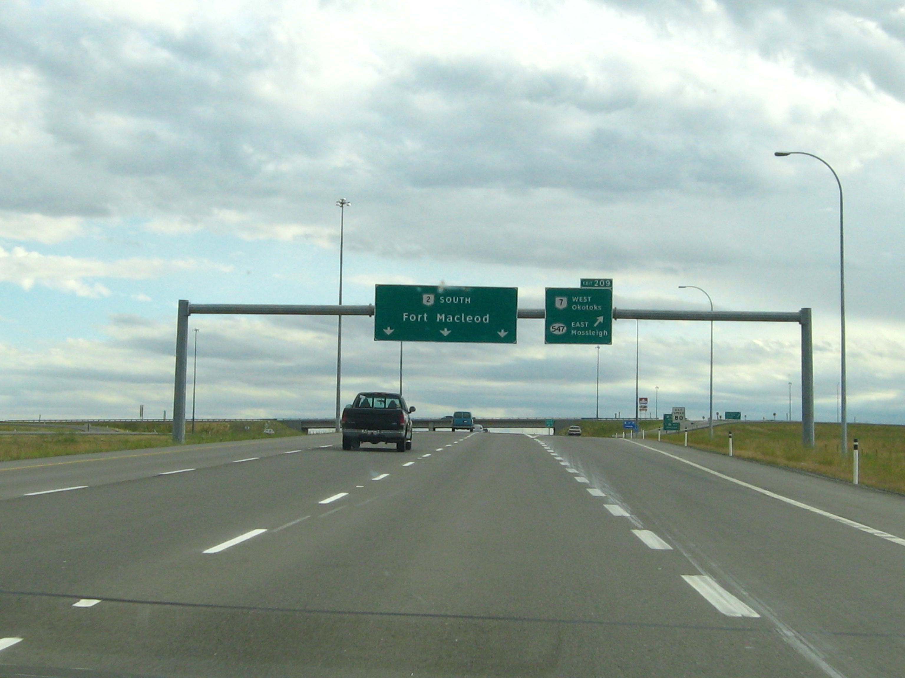 Alberta Highway 2 in the Foothills, headed south at exit 209.